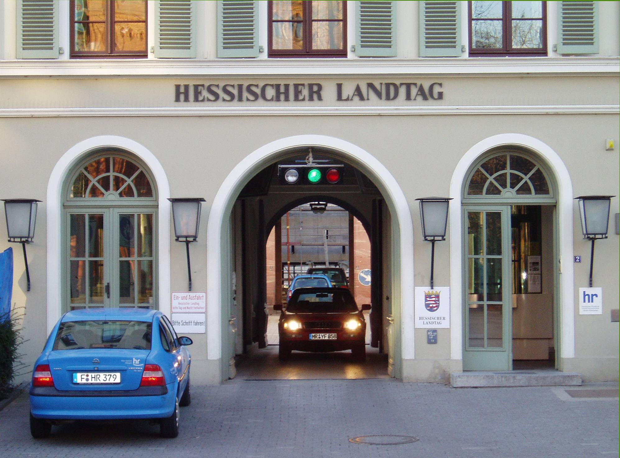 Entrance to the State Parliament at the Stadtschloss in Wiesbaden, Germany (Kavaliershaus)